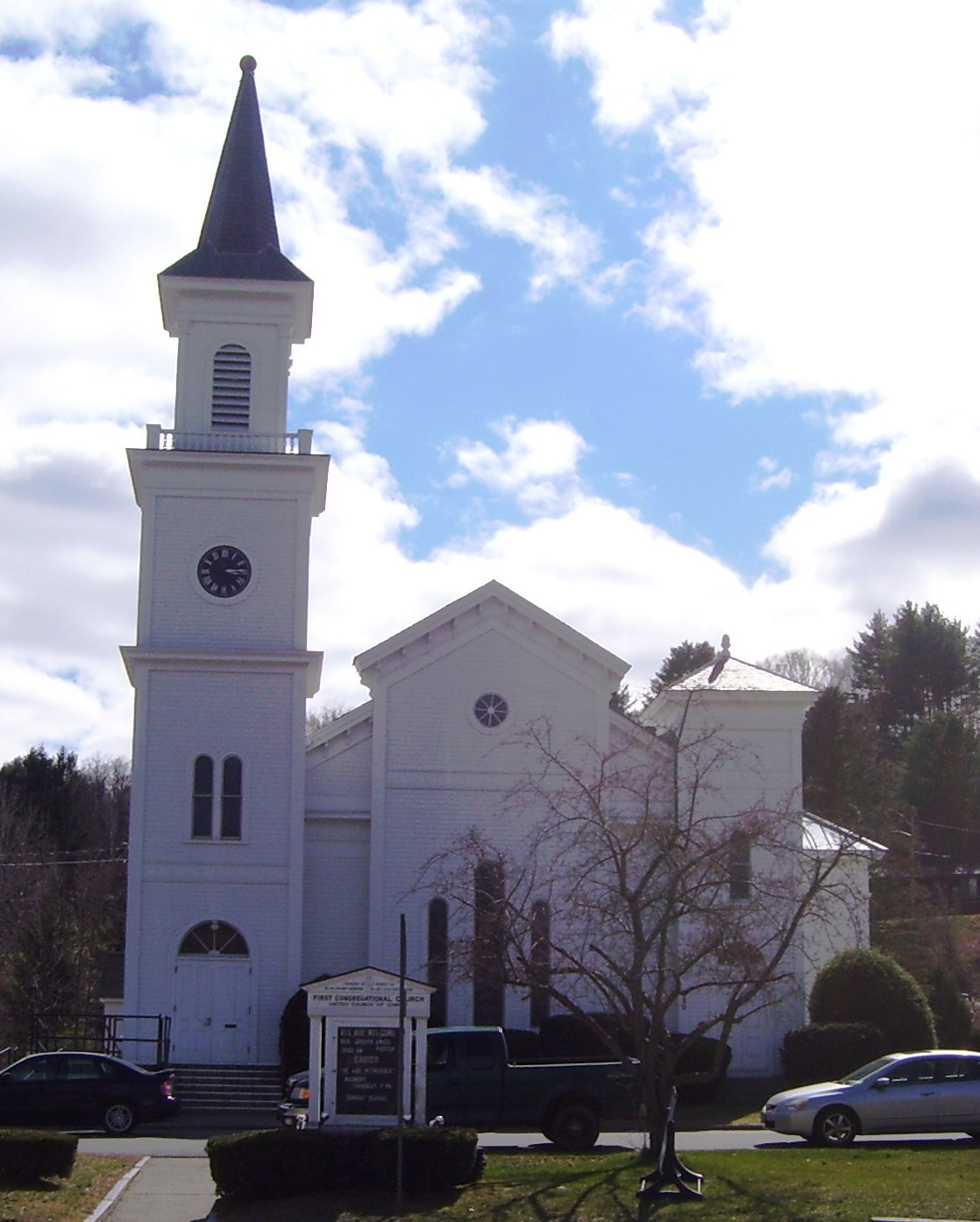 The First Congregational Church (United Church of Christ) at 880 Western Avenue (Vermont State Route 9) in West Brattleboro, Vermont. The congregation was founded in 1770, and is tied for the third oldest congregational church in Vermont. It is located in the West Brattleboro Green Historic District. (Source: [1])